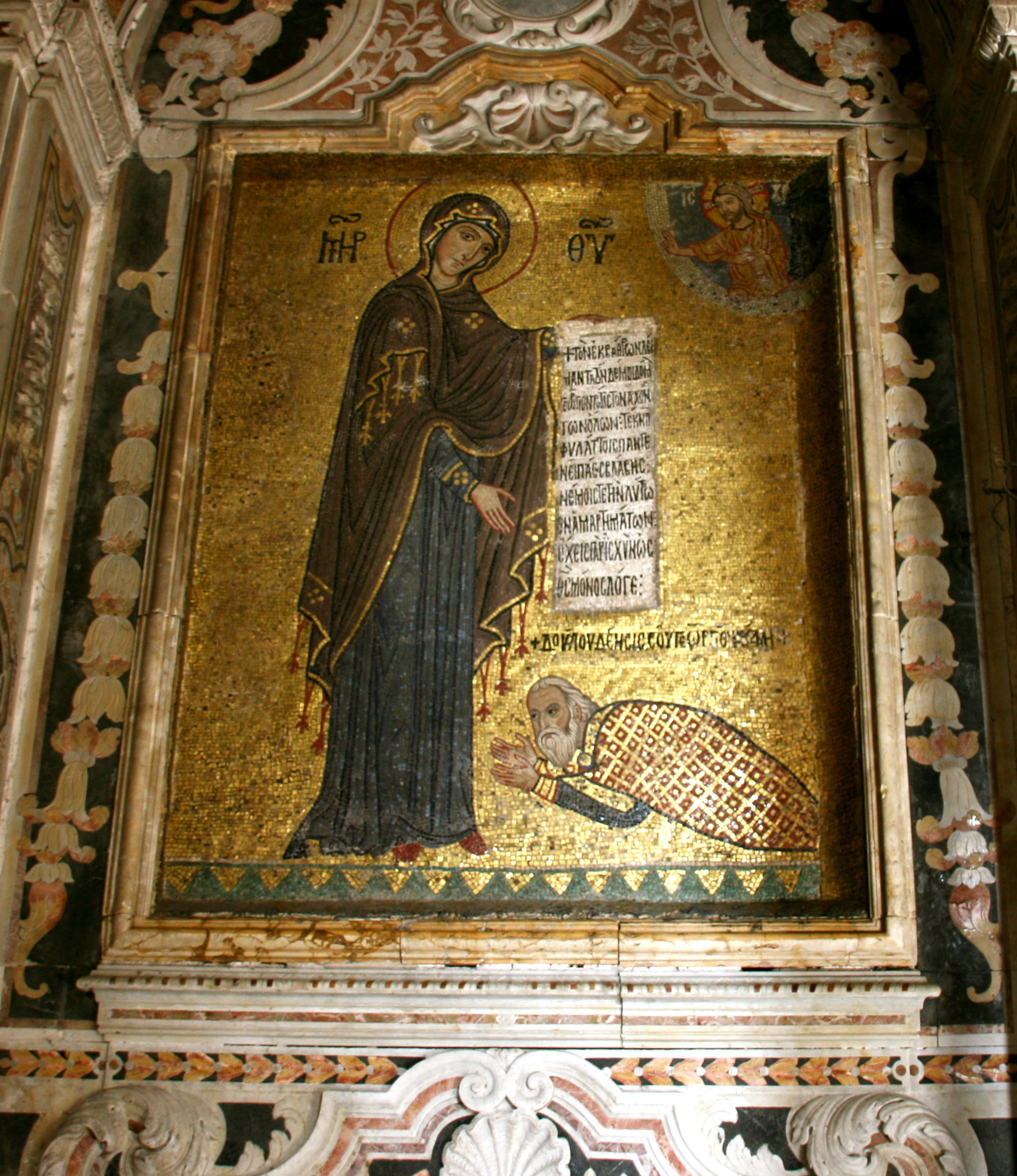 George of Antioch and Holy Virgin